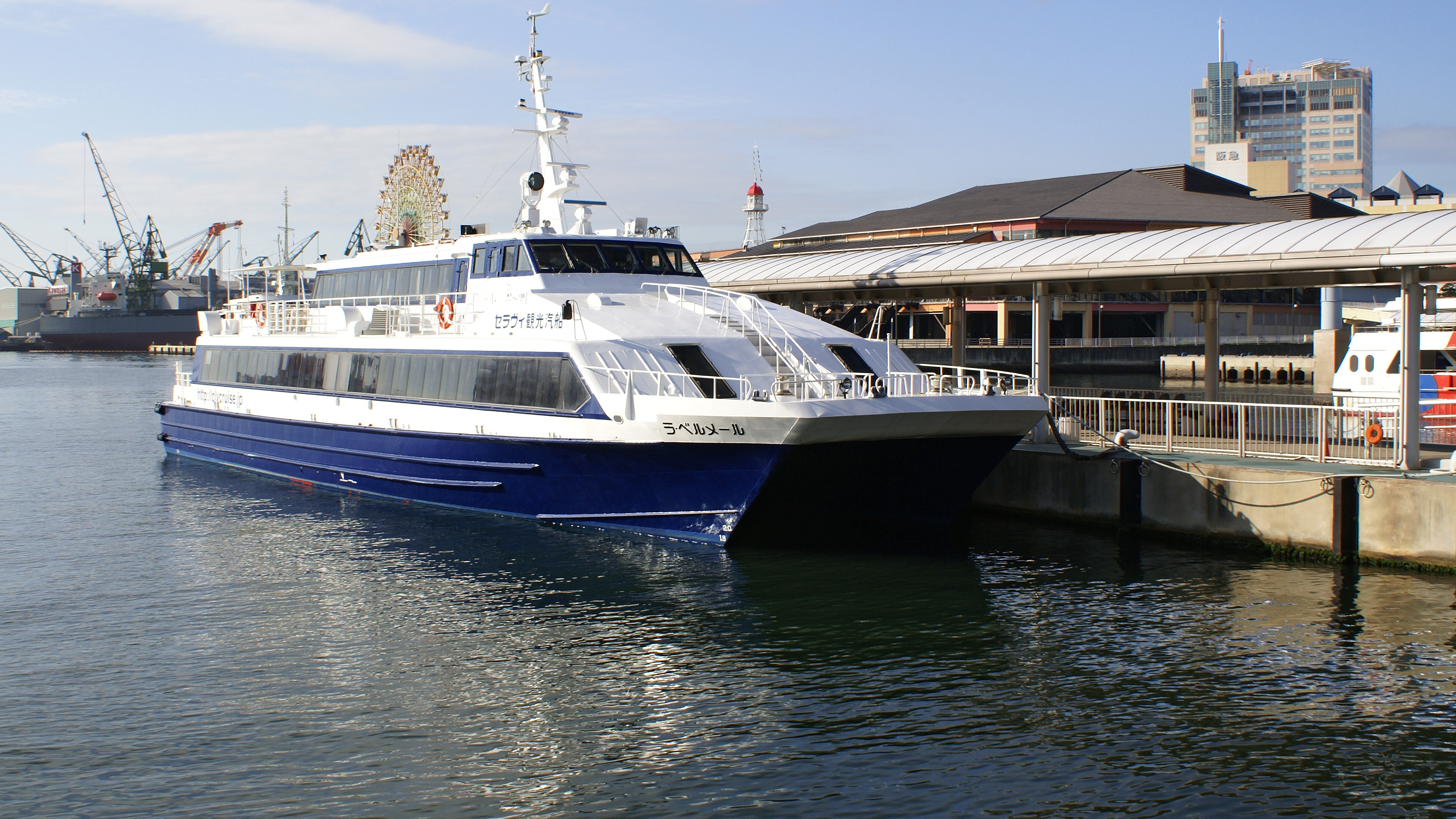 "La Belle Mer" who anchors at "Nakatottei Central Terminal" of the Kobe harbor (Kobe, Hyogo, Japan).